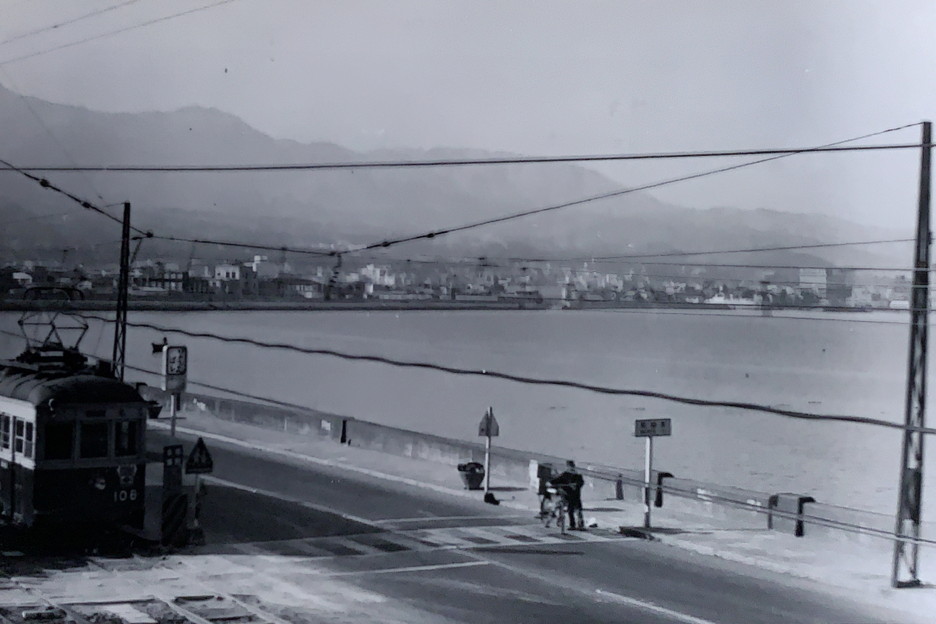 Beppu City from Ryogunbashi 1960s